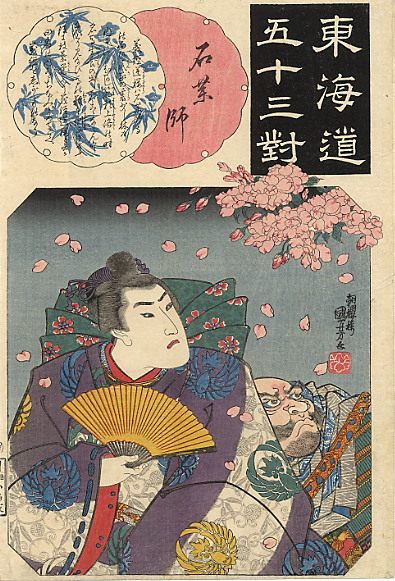 "The 53 stations of the Tōkaidō in pairs" (or "53 Parallels for the Tōkaidō Road"), Ishiyakushi. The print depicts Yoshitsune and Benkei among the falling cherry blossoms of Suma after the Battle of Ichi no tani.